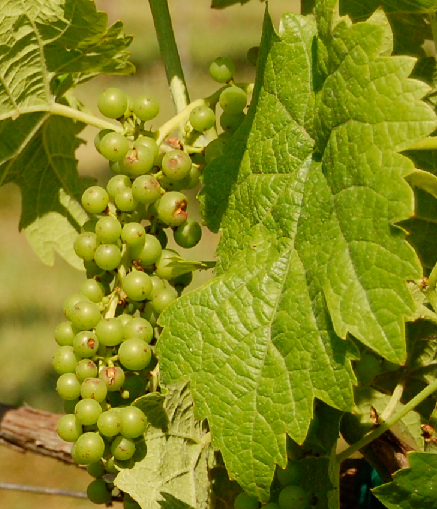 Cropping of File:Hybrid Seyval blanc grapes pre-veraison.jpg to get a close up of the grape. Tried to upload with Derivative Fx but kept getting an error.